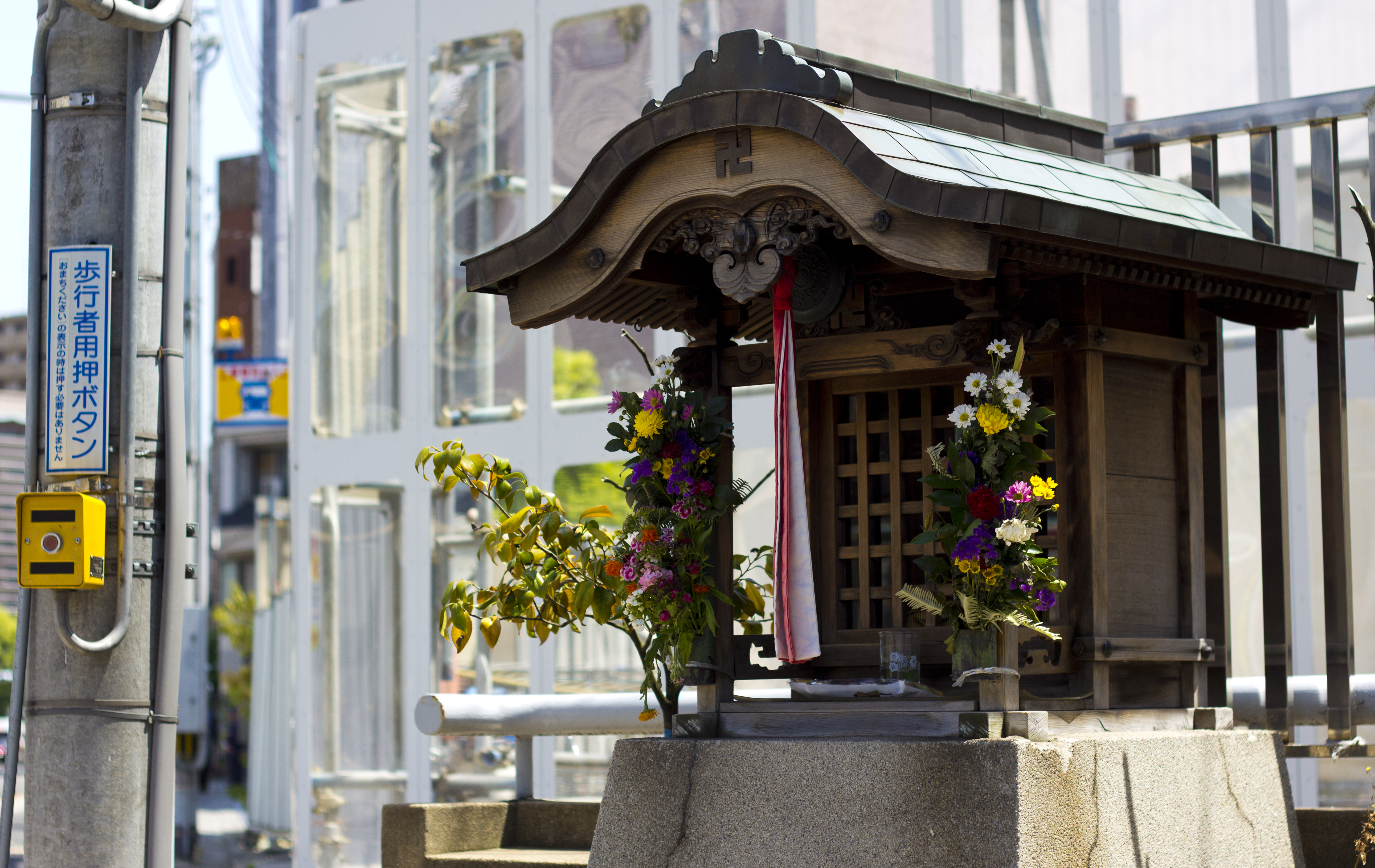 A small hokora (wayside shrine) in Kyoto, along Koin-dori.